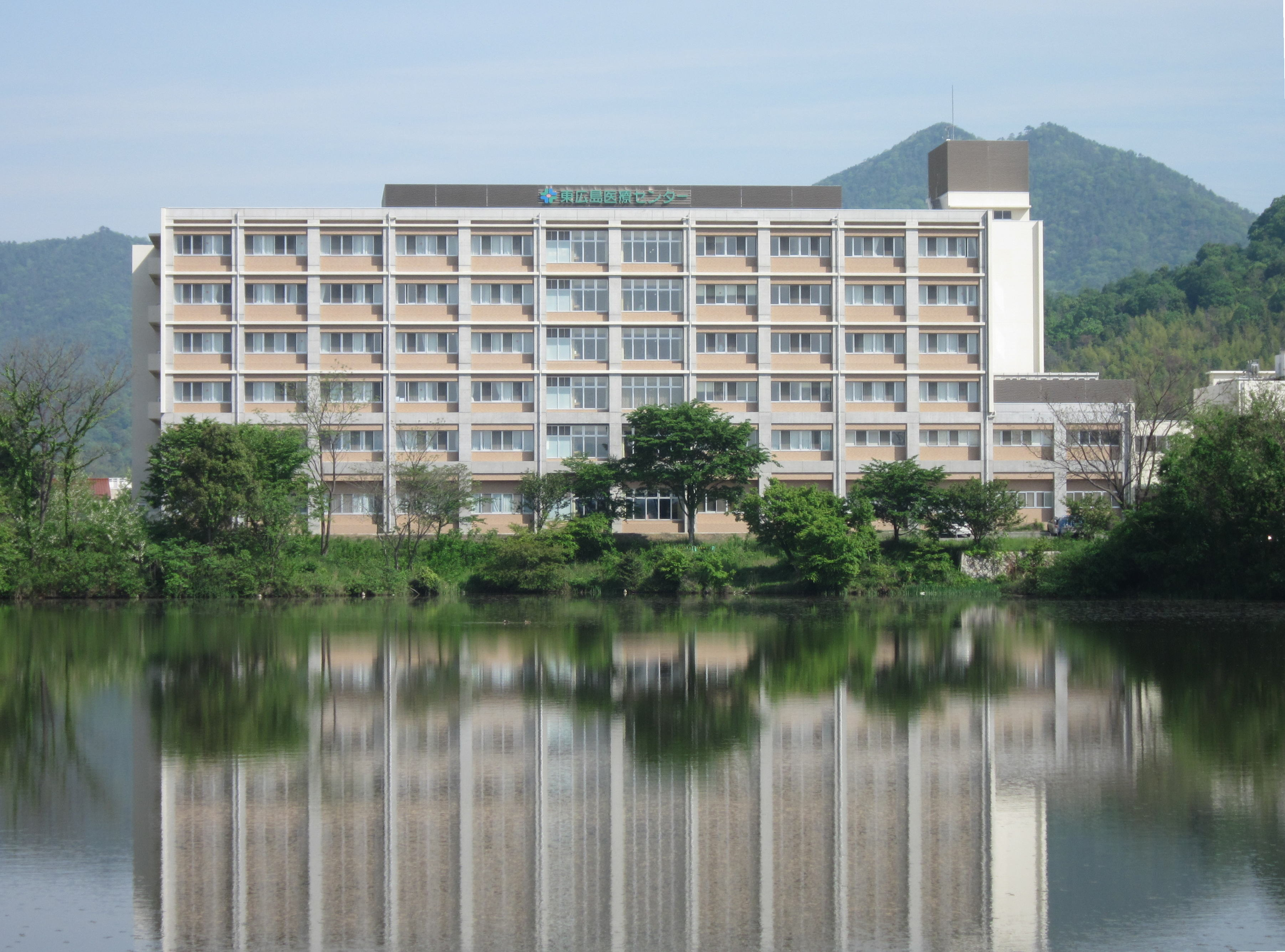 Higashihiroshima National Hospital